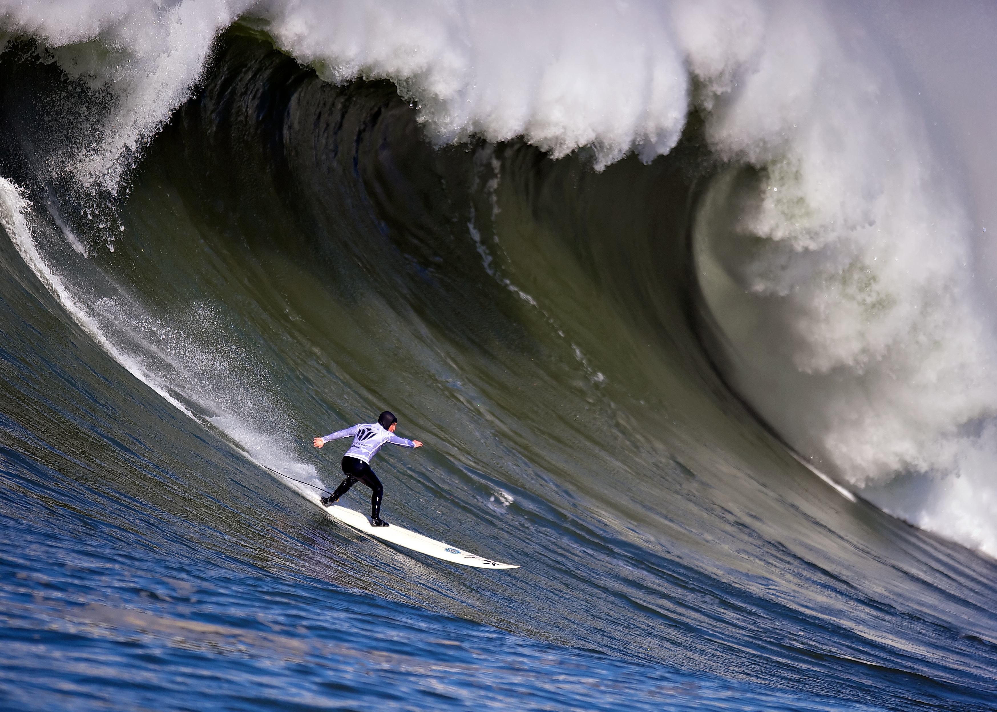 Surfer rides a wave during the Mavericks Surf Contest 2010